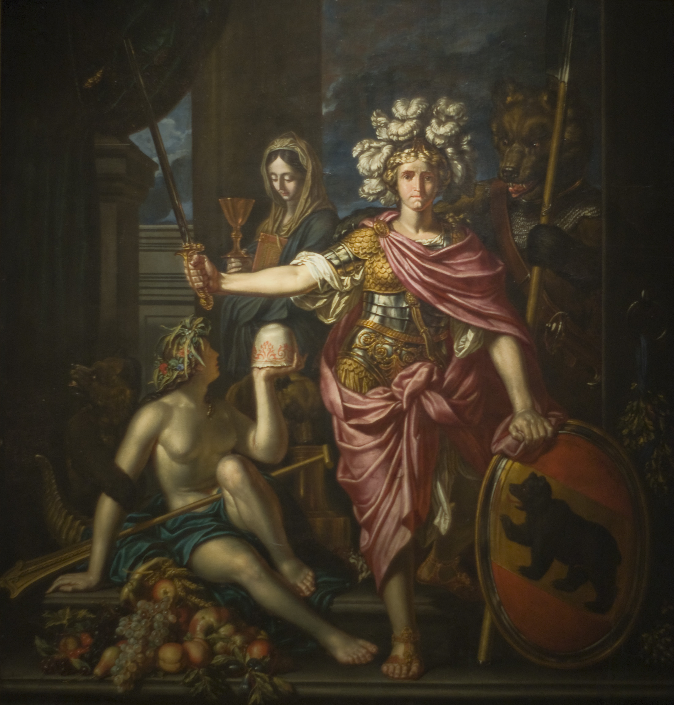 Created as decoration for the Grand Council chamber. Berna, the personification of the Republic, is protected by bears and surrounded by Faith and Prosperity.